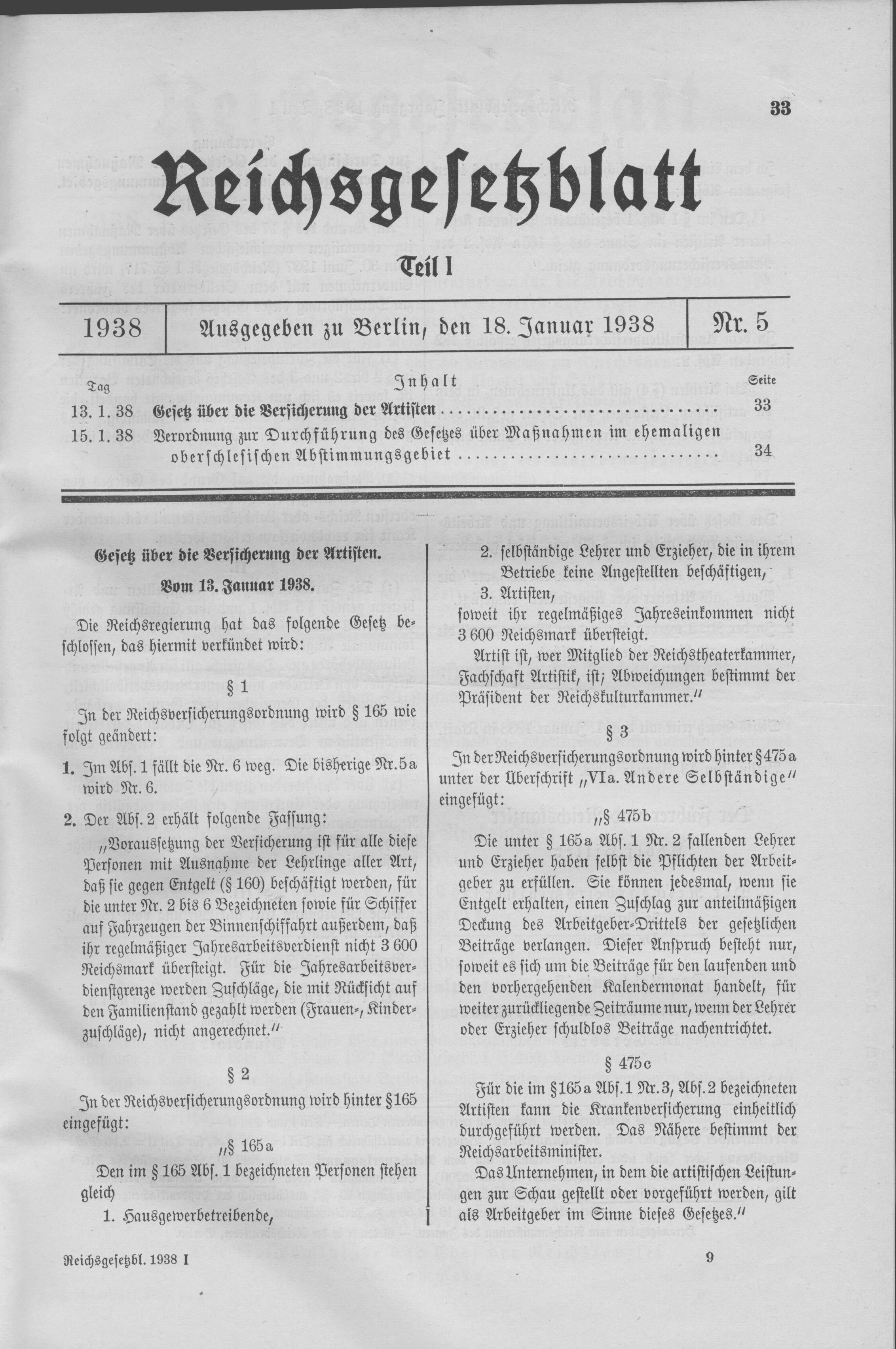 Scan from the Imperial Law Gazette of Germany, 1938, part 1